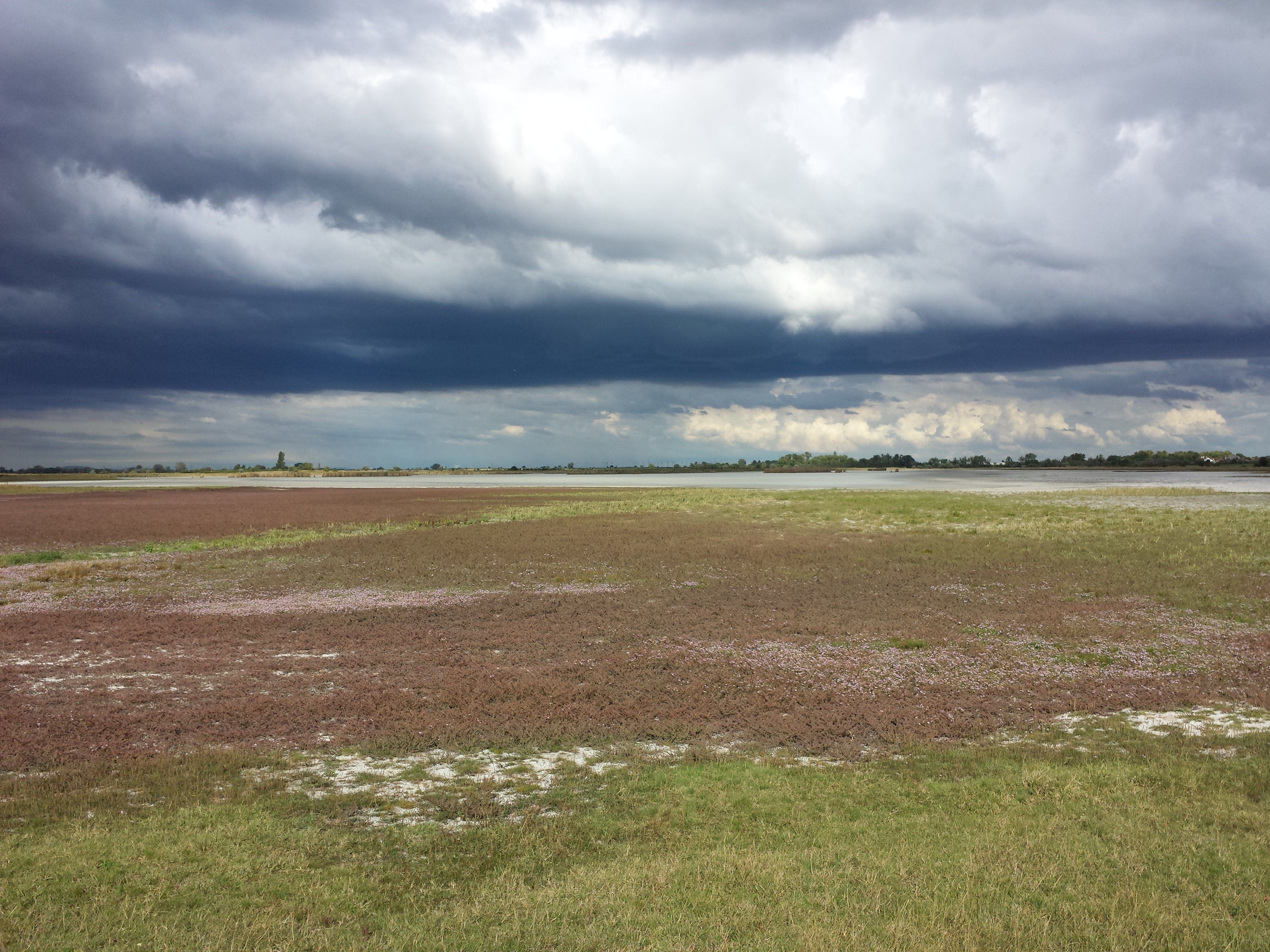 Next to Illmitz, district Neusiedl am See, Burgenland, Austria - ca. 120 m a.s.l.